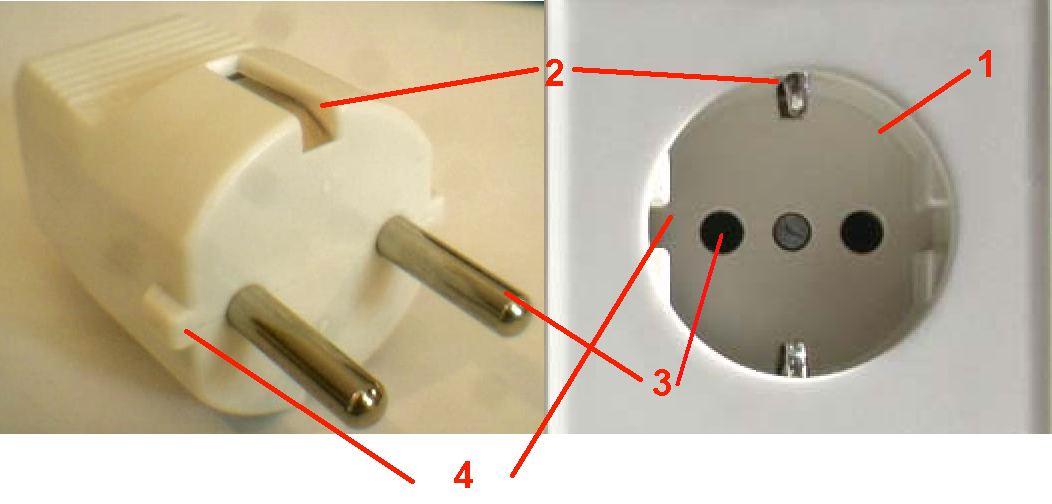 When inserted into the socket, the Schuko plug covers the socket cavity(1) and establishes protective-earth connection through the earth clips(2) before the live and neutral pins(3) establish contact, thereby preventing users from touching connected pins. Therefore, the Schuko system does not require partially insulated pins, as they are used in the europlug, as well as the British and Australian plugs. A pair of non-conductive guiding notches(4) on the left and right side provides extra stability, enabling the safe use of large and heavy plugs (e.g. with built-in transformers or timers).